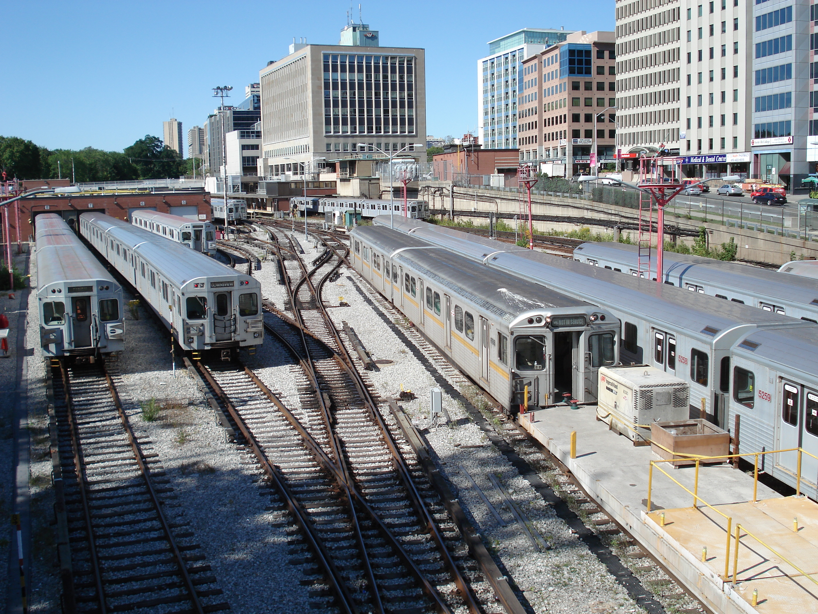 Davisville TTC Yard